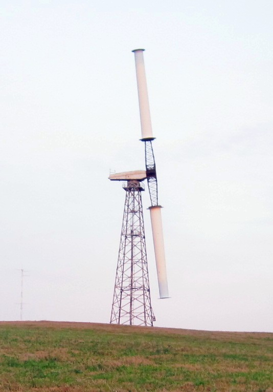 This 250 kW wind turbine has two opposing cylindrical rotors (Flettner rotors). It belongs to the International Sakharov Environmental University and is located 400 meters east of Yankovtsy (near Volma), Dzerzhinsk region, Belarus. Object location53° 53′ 12.38″ N, 26° 58′ 56.58″ E